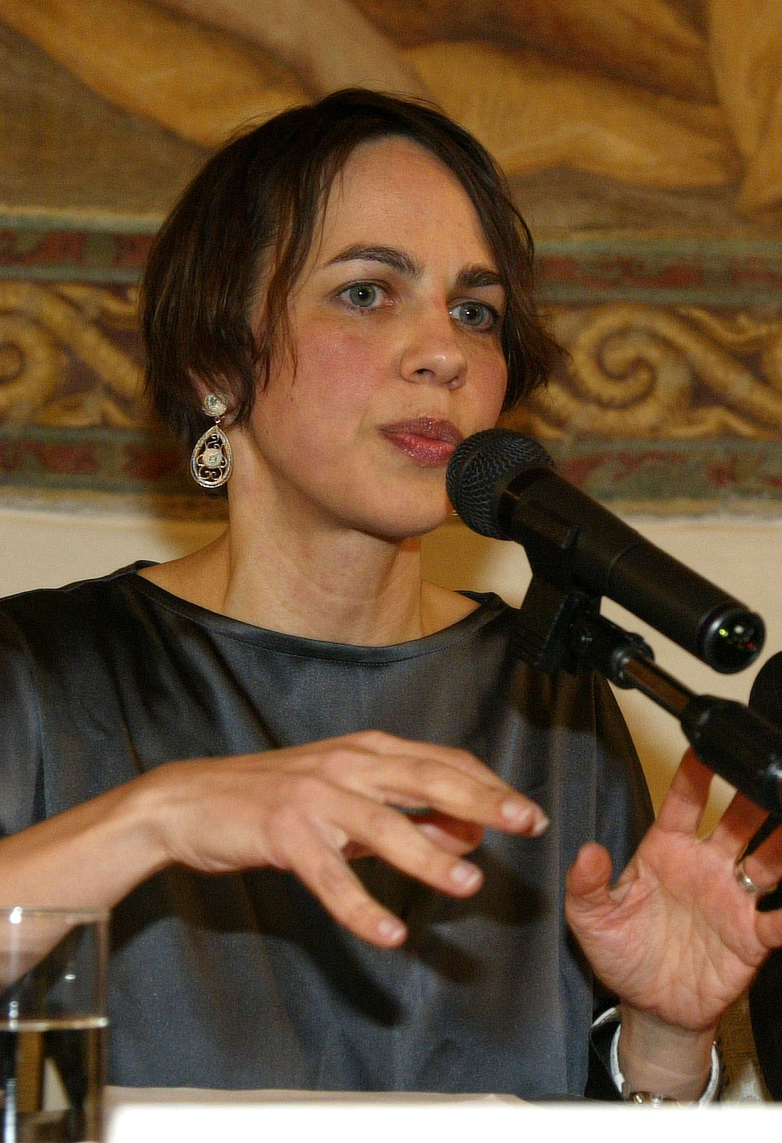 Palazzo leoni Montanari Poetessa Petrova 16-04-09